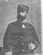 Ramón Serrano Montaner